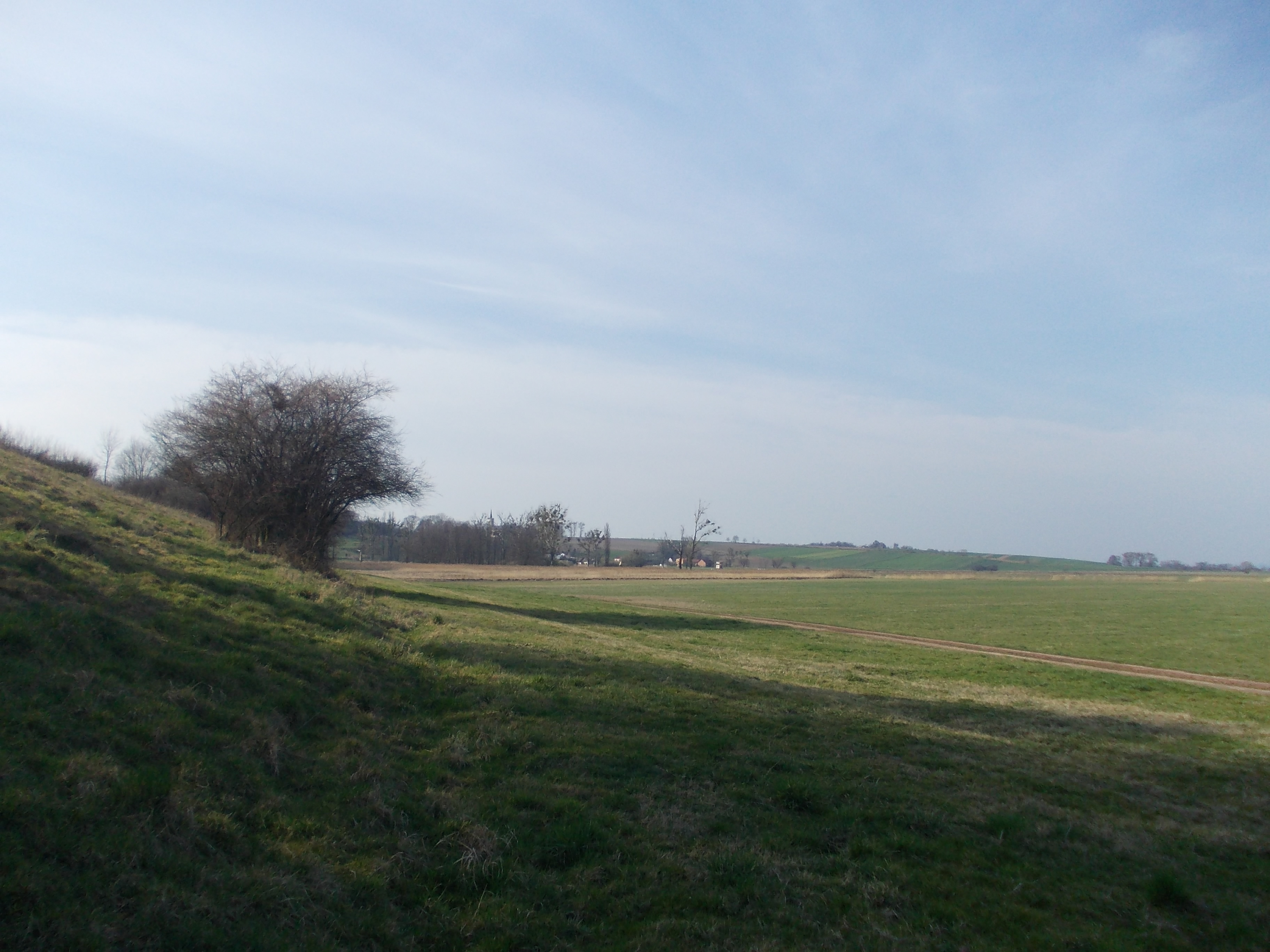 Grzegorzowice